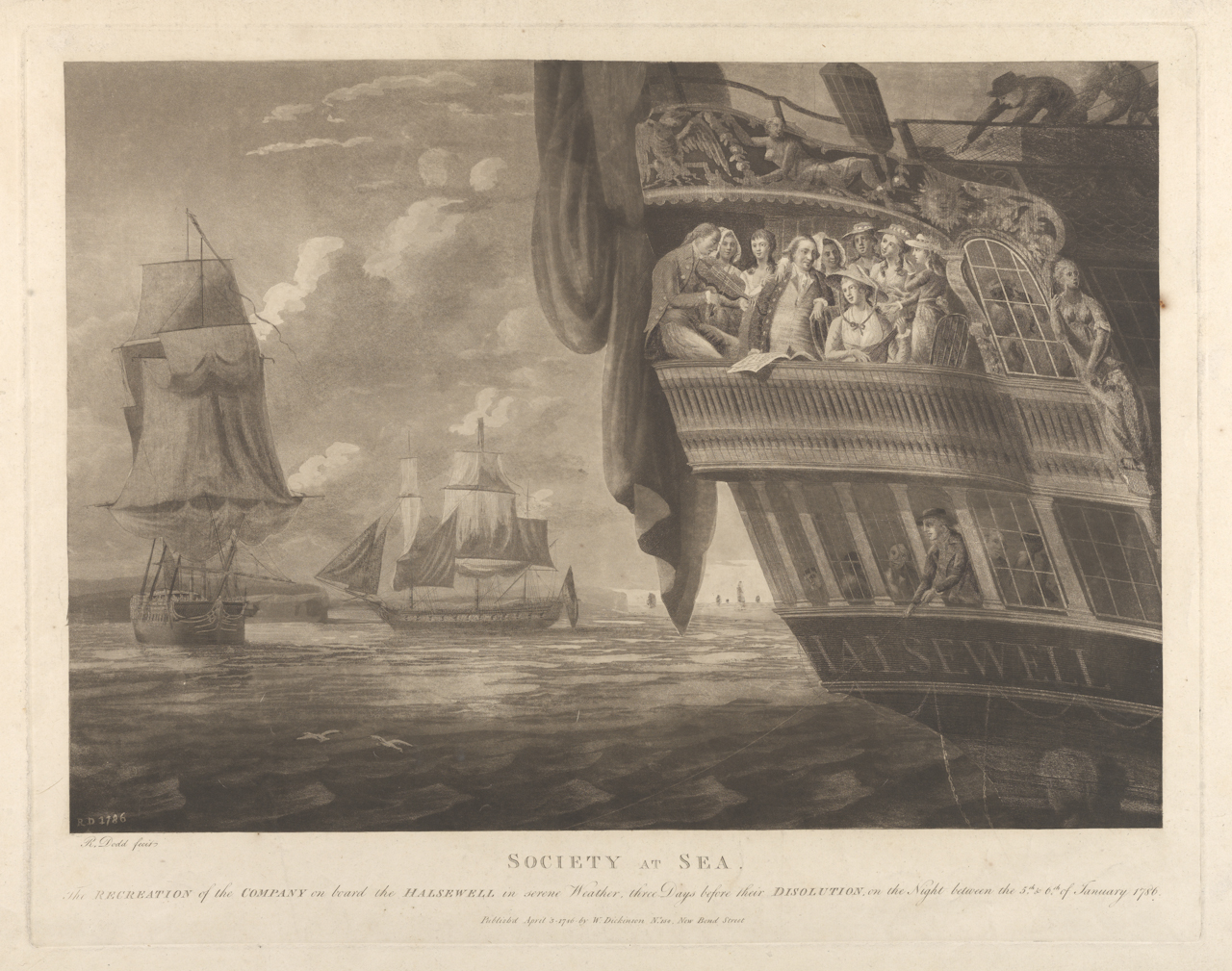 Society at Sea. The Recreation of the Company on board the Halsewell in serene Weather, three Days before their Disolution, on the Night between the 5th & 6th of January 1786 A genre scene of passengers on board the Halsewell, engaging in various activities from the stern. On the quarterdeck is an ensemble consisting of two men and seven women; the man on the far left of the group is playing a violin(?) and sitting on the breastrail. The other man, perhaps the conductor with sheet music, is leaning with his left arm on a chair occupied by one of the women; she appears to be playing a gittern. Below this group, from a window on the upper deck, a man waits patiently for a catch with his fishing line. Various male figures can be discerned behind the other windows here. At the top-right corner of the image, on the poop deck, are men pulling on one of the stays. Two other ships are featured on the left of the image, the first depicted in starboard-bow view (left) and the other port-broadside (right). Behind them are areas of land, some just barely discernible. Further ships are dotted across the horizon in the centre of the image. Signed ‘R D 1786’ at bottom-left corner of image. Inscribed: ‘SOCIETY AT SEA./ THE RECREATION of the COMPANY on board the HALSEWELL in serene Weather, three Days before their DISOLUTION on the Night between the 5th & 6th of January 1786./ Published April 3, 1786 by W. Dickinson No. 158, New Bond Street’ Society at Sea. The Recreation of the Company on board the Halsewell in serene Weather, three Days before their Disolution, on the Night between the 5th & 6th of January 1786